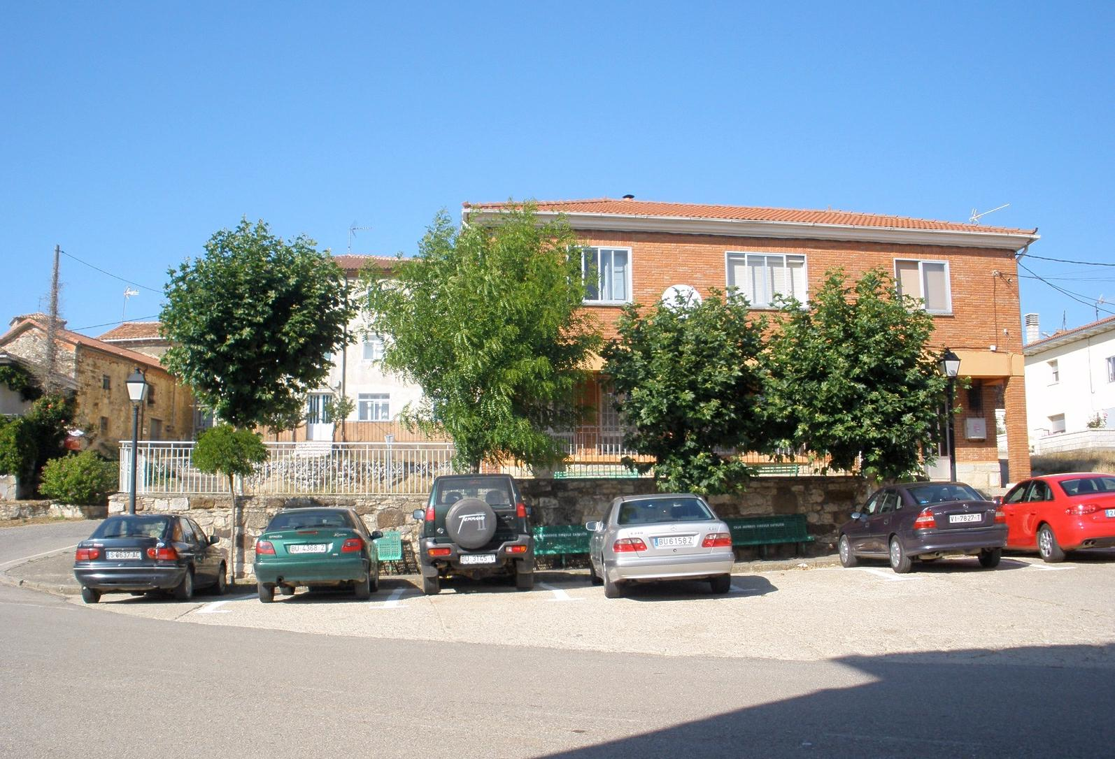 Basconcillos del Tozo (Burgos, Castilla y León, España)